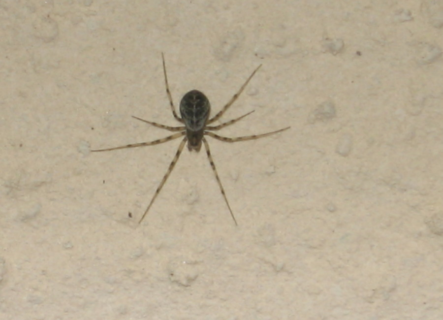 Drapetisca socialis (Linyphiidae) female specimen on the wall.